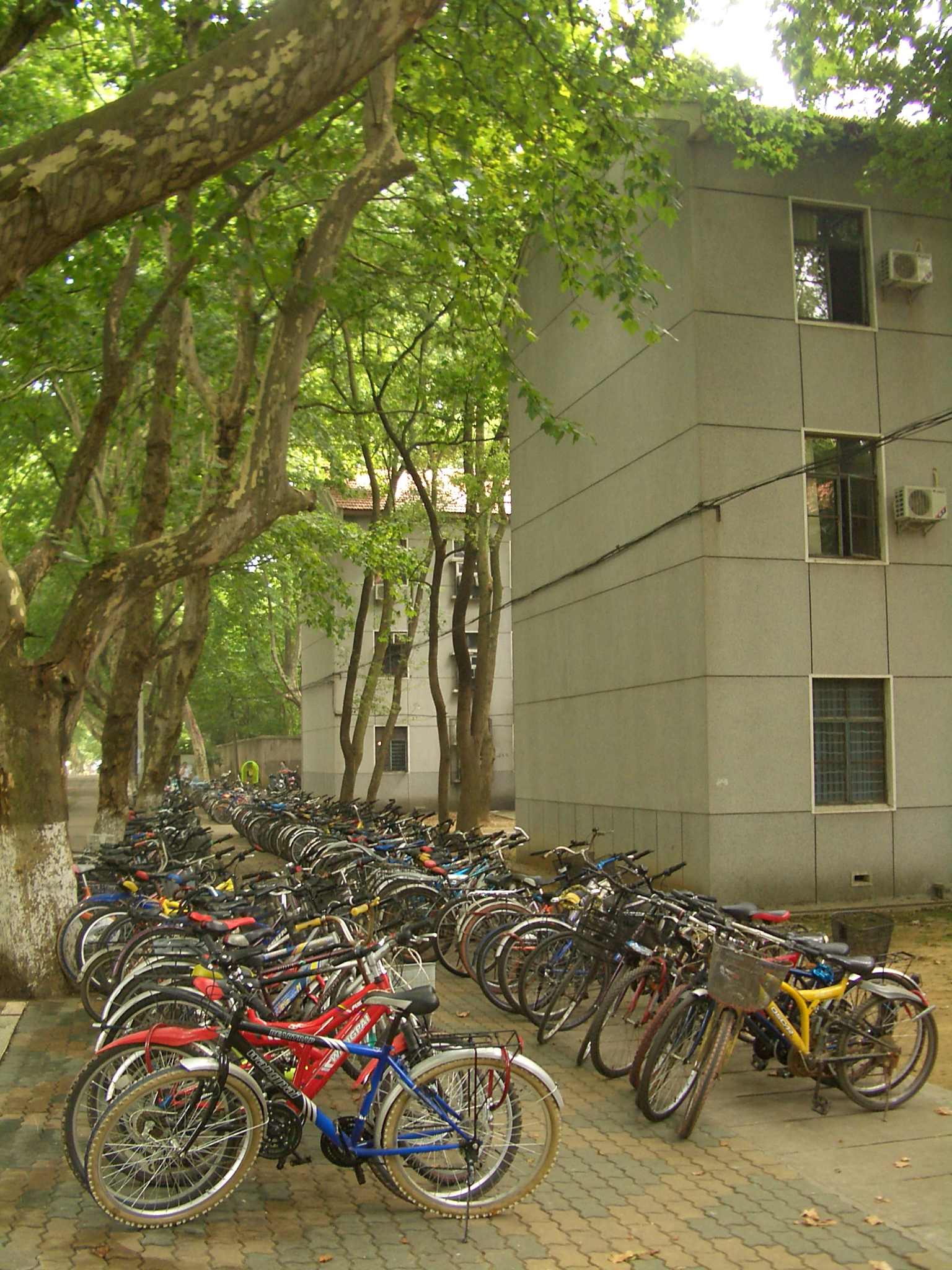 A student dorm on the HUST campus, with lots of bicycles parked in front of it